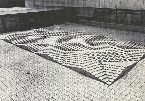 Tegelrelief Ad Dekkers ROC College Gouda 1. Door vergroting van het schoolgebouw, werd het kunstwerk verwijderd. In 2019 kreeg het een nieuwe bestemming. Het Bruns park in Bergeijk